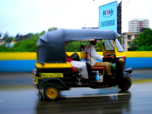 Auto-rickshaw